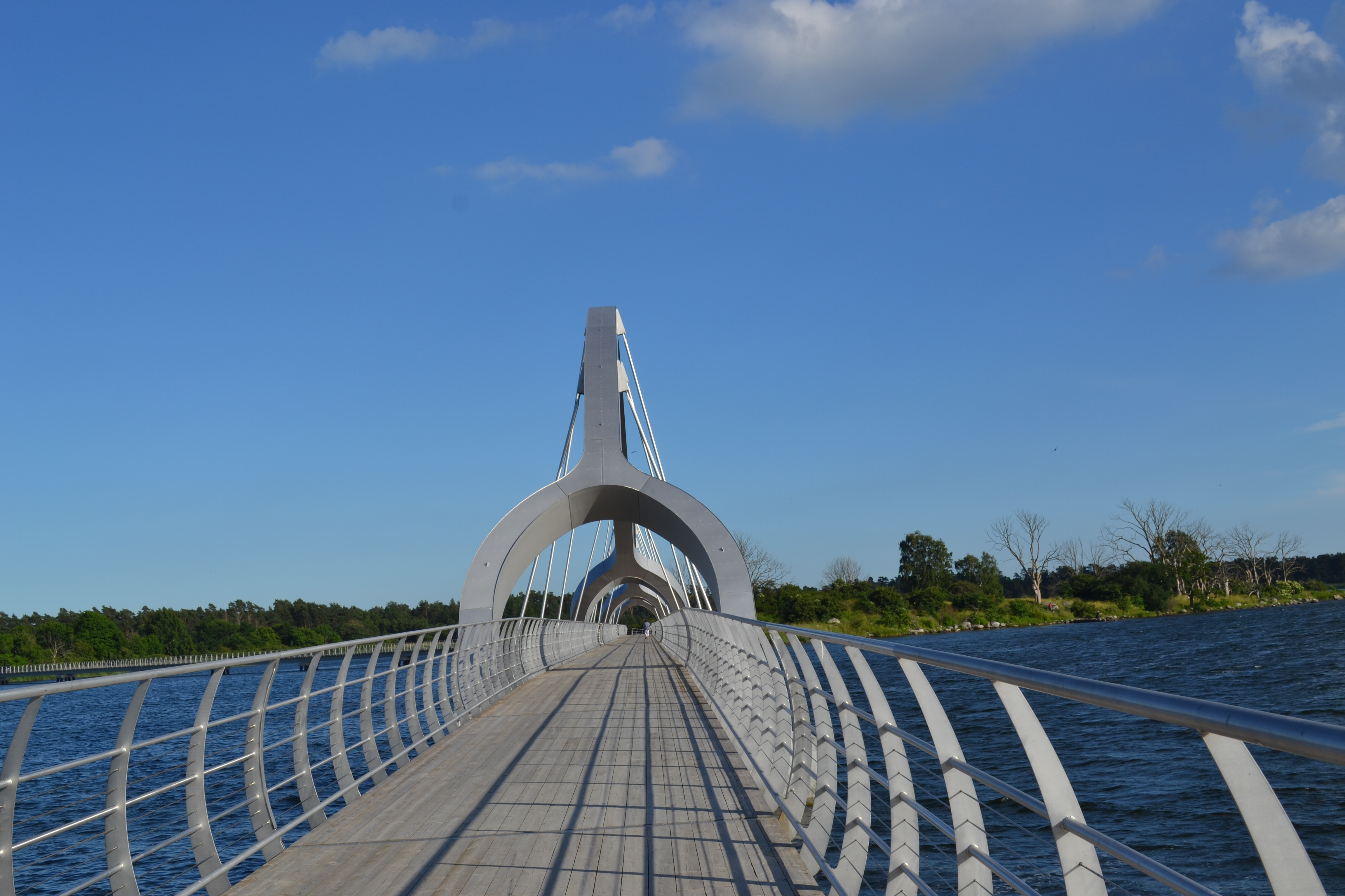 One of the longest footbridge in Europe, 760 m. Sölvesborg, Sweden